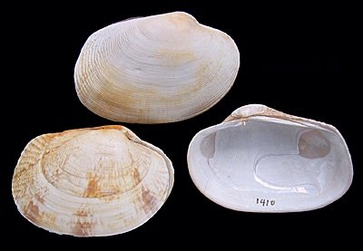 Venerupis senegalensis; Marine bivalved shell from the North Sea.